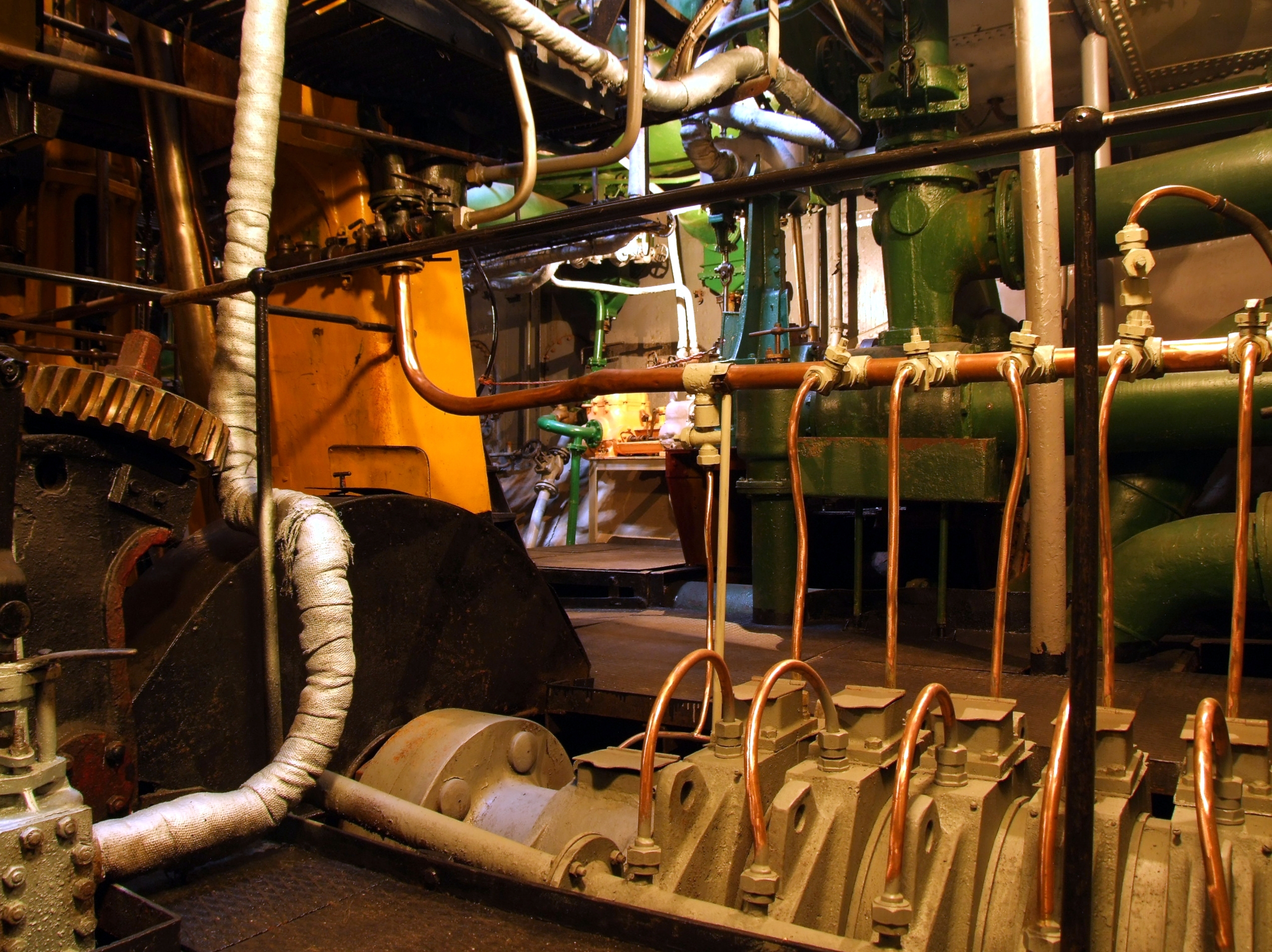 Icebreaker "Suur Tõll", Tallinn - engine room